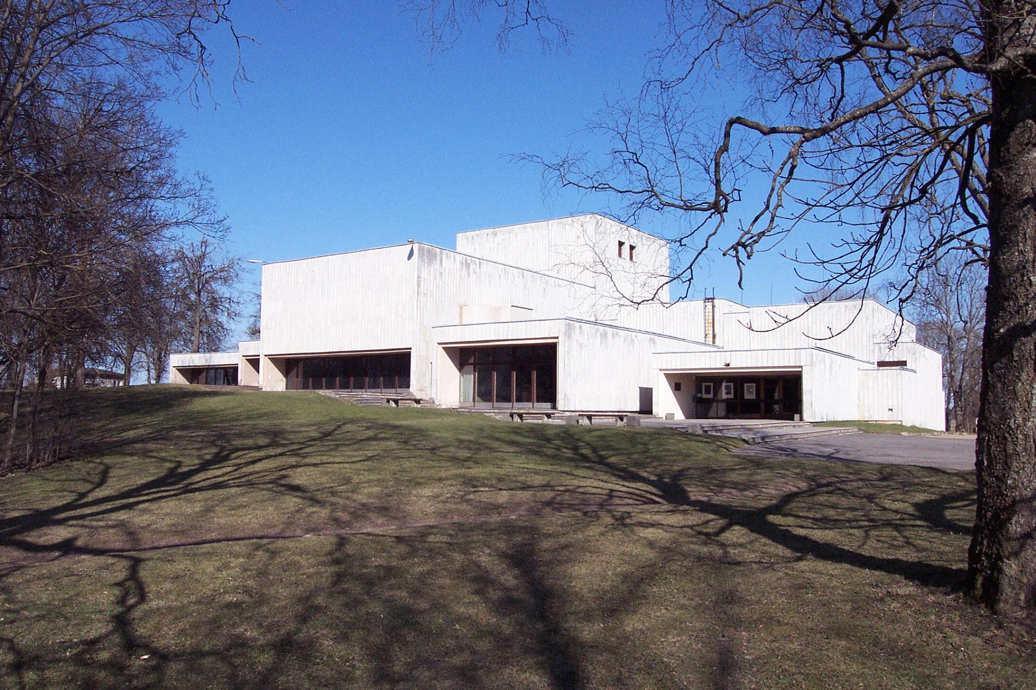 Hoone pargi poolt vaadatuna